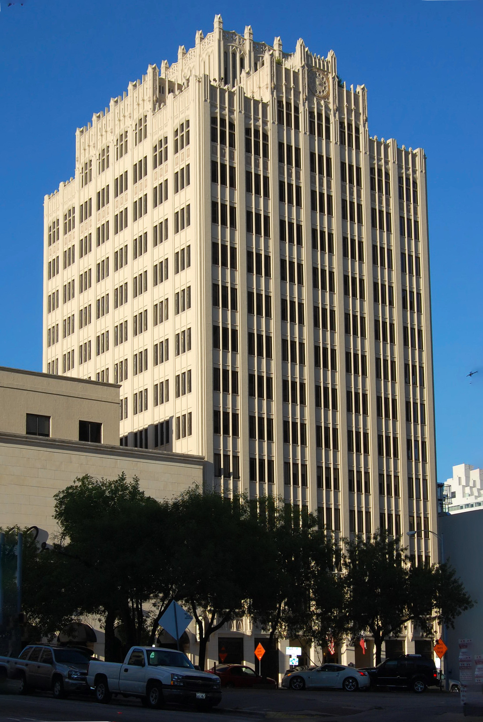 Norwood Tower in Austin, Texas